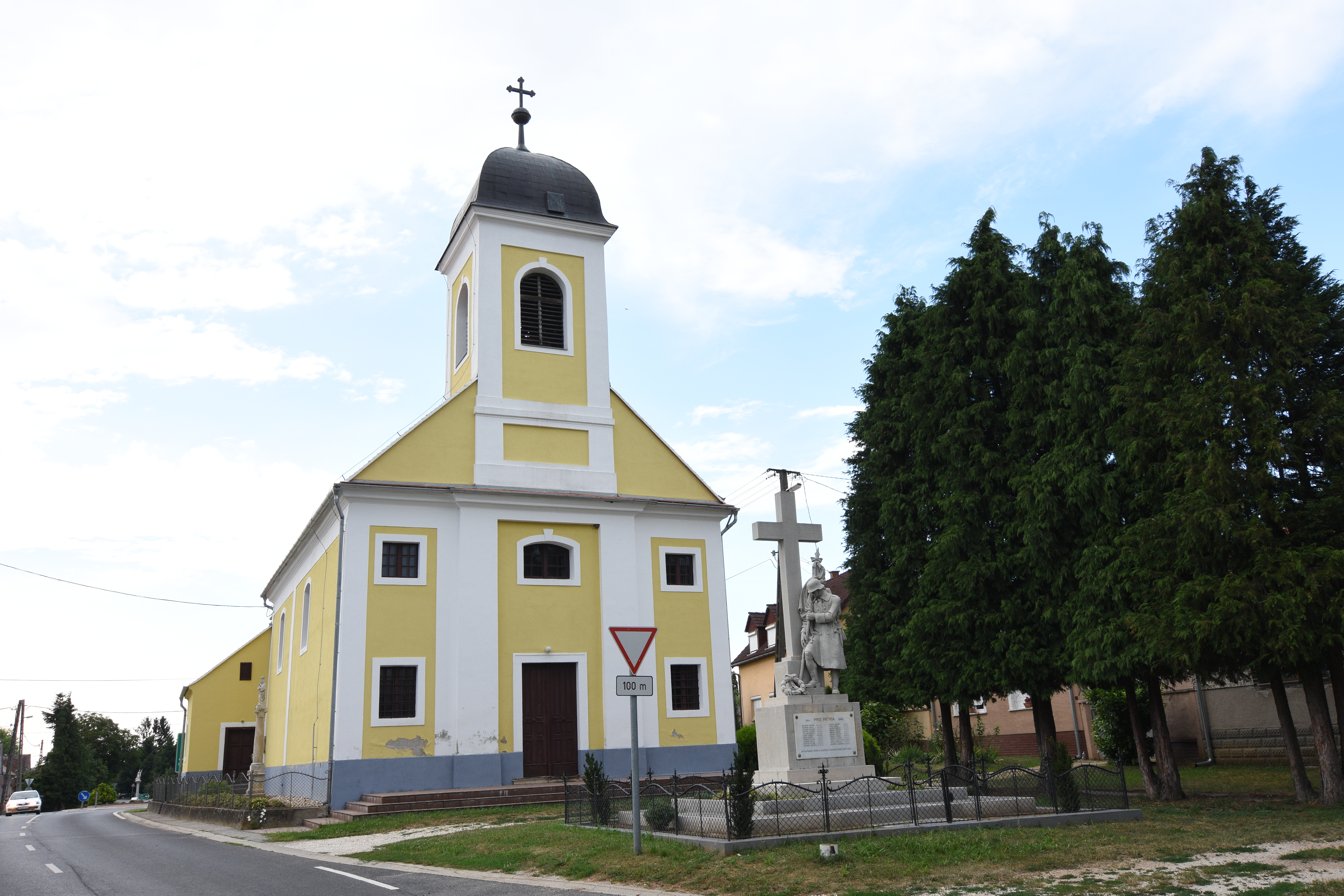 Church Pinkamindszent